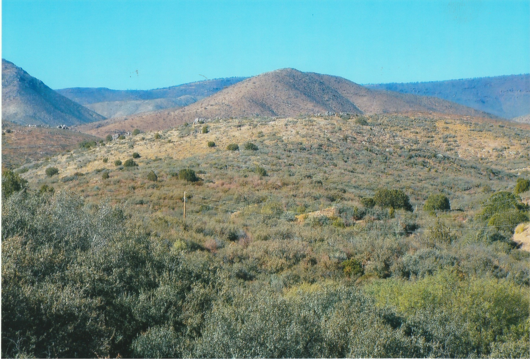 The Bradshaw Mountains as seen from Main St. Mayer, Az.